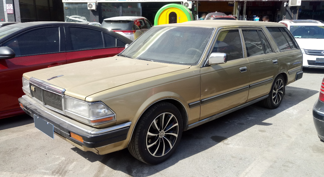 Yunbao YB6470 photographed in Beijing, China.